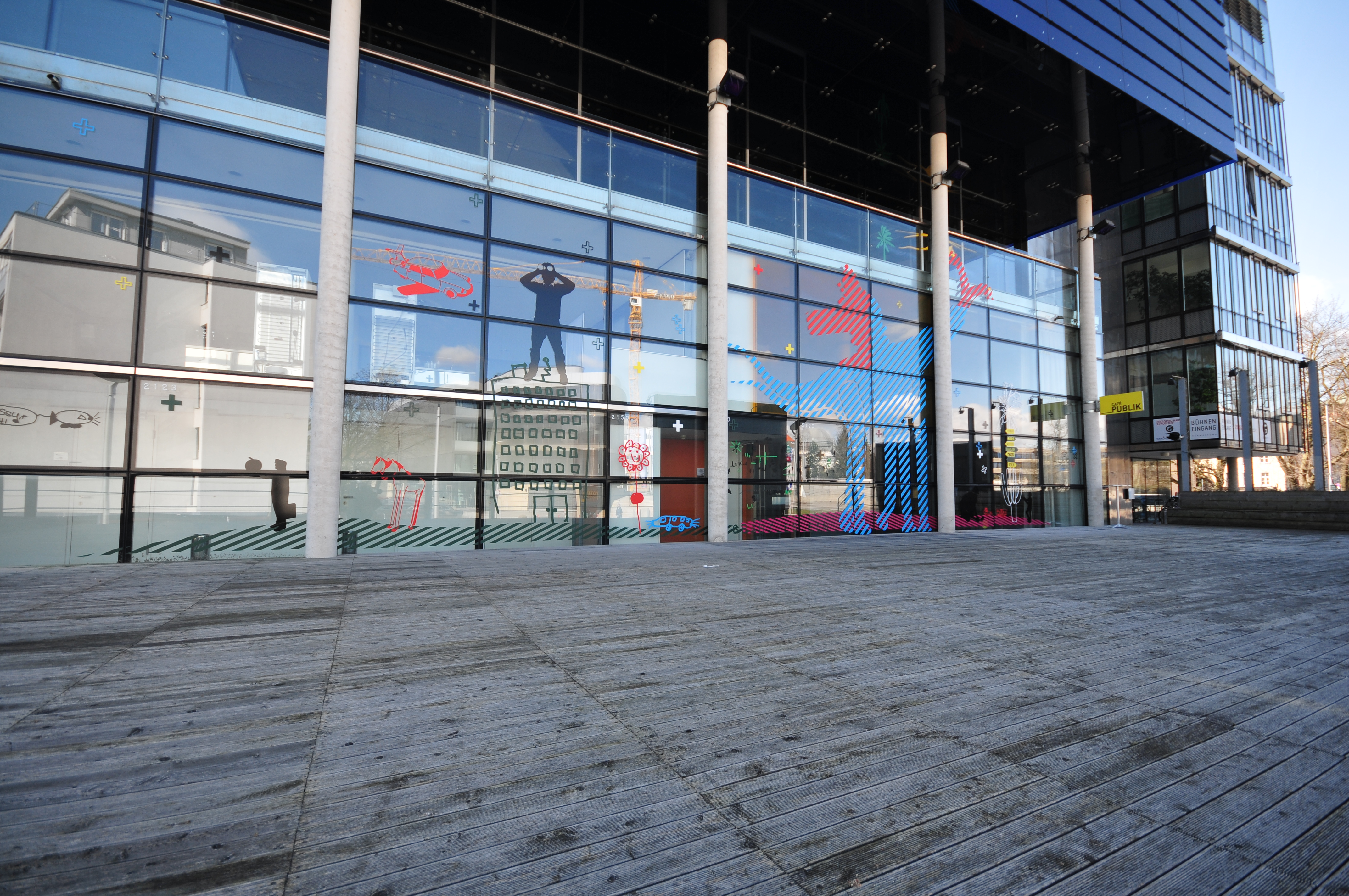 St. Pölten, Austria, Landhausviertel Fotowanderung St. Pölten 13. April 2013 in St. Pölten, Niederösterreich 50mm • Allgemeines • Bahnhof • Domplatz • Fahrräder • Landhausviertel • Rathausplatz